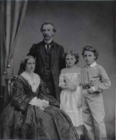 Otto Friedrich August Busse (1822-1883), German-Danish mechanic at Sjællandske Jernbaner (Zealand's Railways), with family: Wife Louise Busse, née Rost (1833-1901) and the children: Louise Stokkebye, née Busse (1851-1939), and Otto Frederik August Busse, later to become technical director of the Danish State Railways (1850-1933).